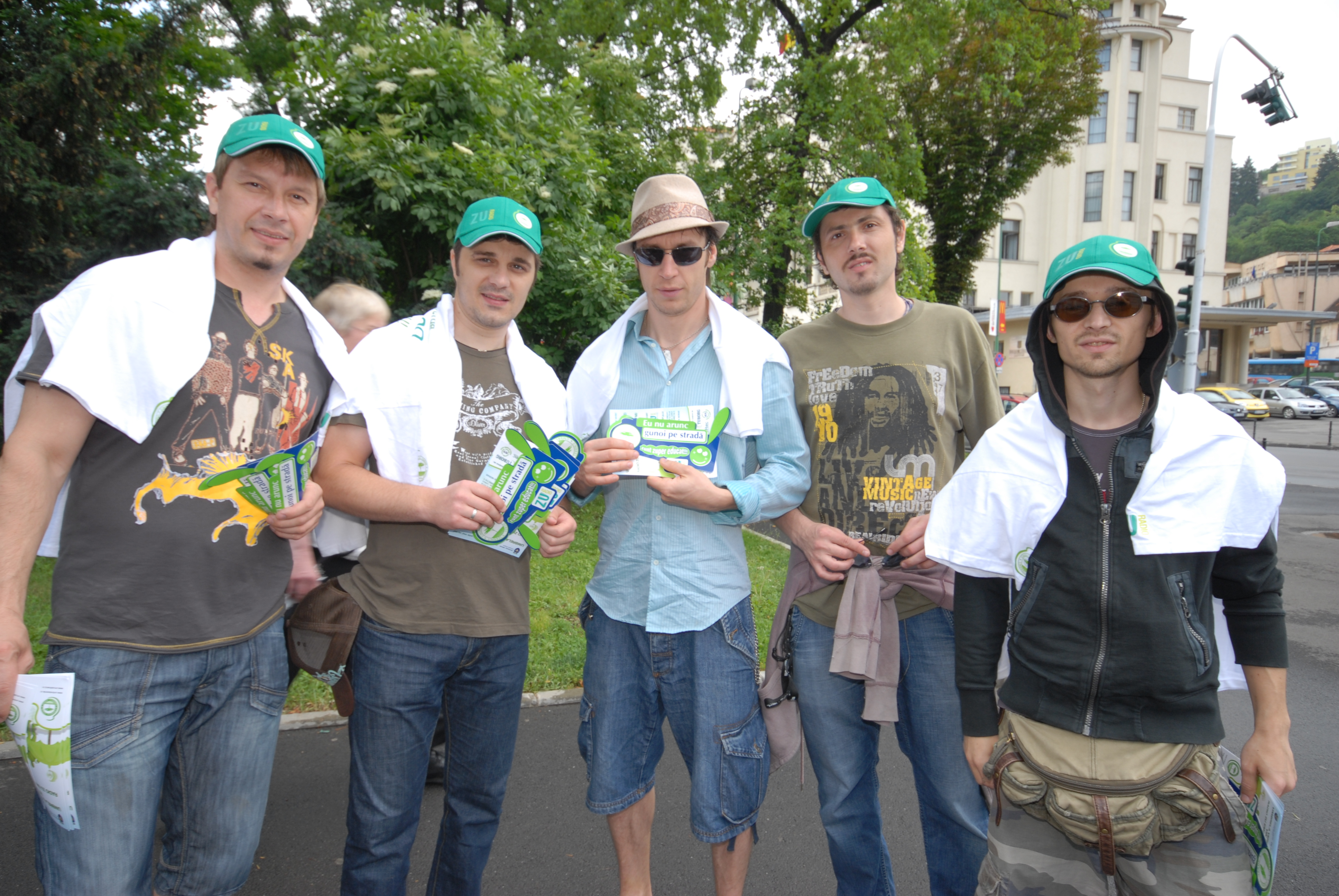 Baietii de la Zdob si Zdub, voluntari la actiunile de curatenie din Brasov.